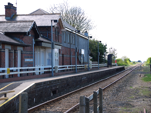 Bellarena Railway Station, 3 km from Aghanloo, Ireland. Another view of the station seen in C6631 : Bellarena Railway Station . The station opened on the 18th July 1853 although the buildings and staionmaster's house are now in private ownership (including self-catering accommodation Link ). This track and halt, on the Belfast - Derry/Londonderry line, are still in daily use.